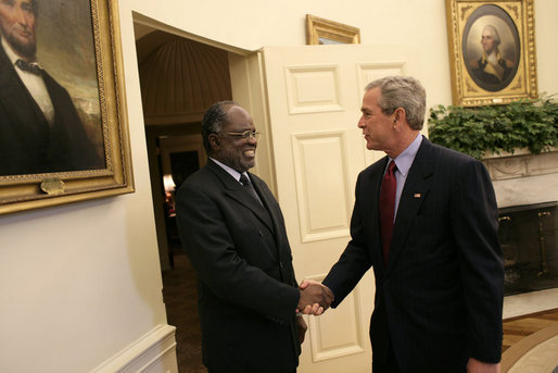 Meeting with the leaders from Mozambique, Botswana, Niger, Ghana and Namibia, President George W. Bush welcomes President Armando Guebuza of Mozambique to the Oval Office Monday, June 13, 2005. The leaders discussed a range of topics, including AGOA. "All the Presidents gathered here represent countries that have held democratic elections in the last year," said President Bush. "What a strong statement that these leaders have made about democracy and the importance of democracy on the continent of Africa." White House photo by Eric Draper.